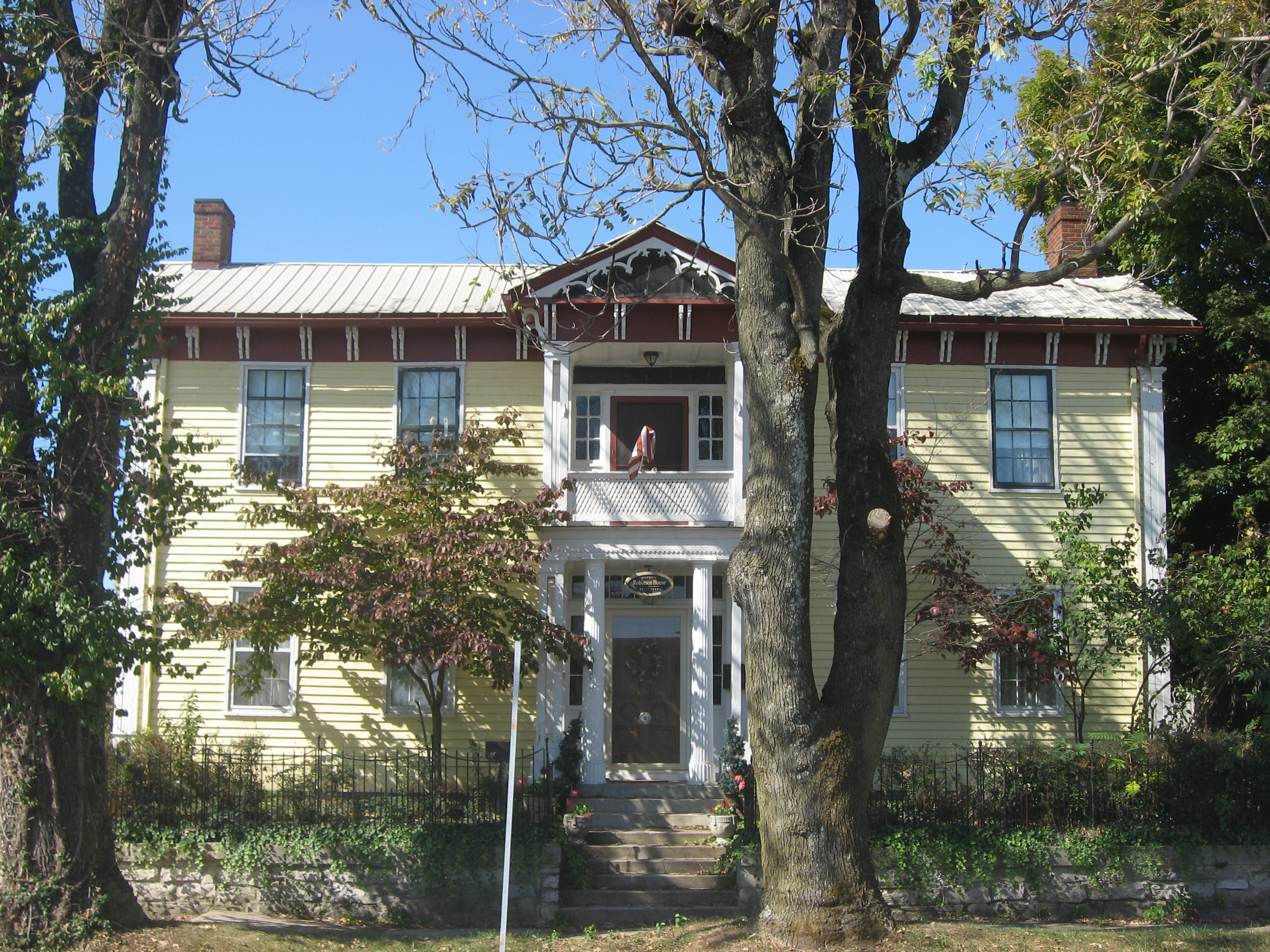 Front of the Allison-Robinson House, located at 3 N. Montgomery Street in Spencer, Indiana, United States. Built in 1855, it is listed on the National Register of Historic Places.